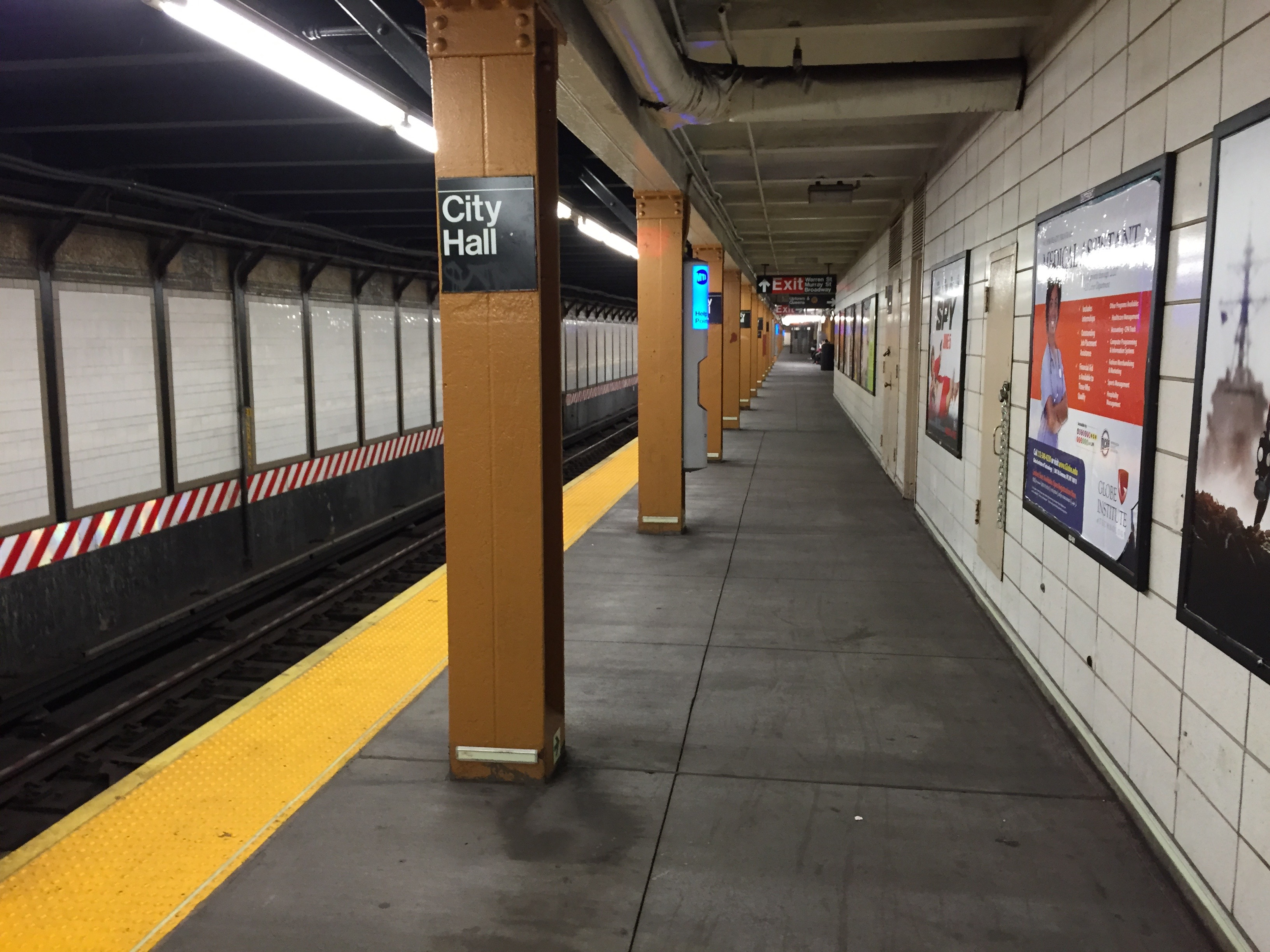 Brooklyn bound side of the City Hall R platform.